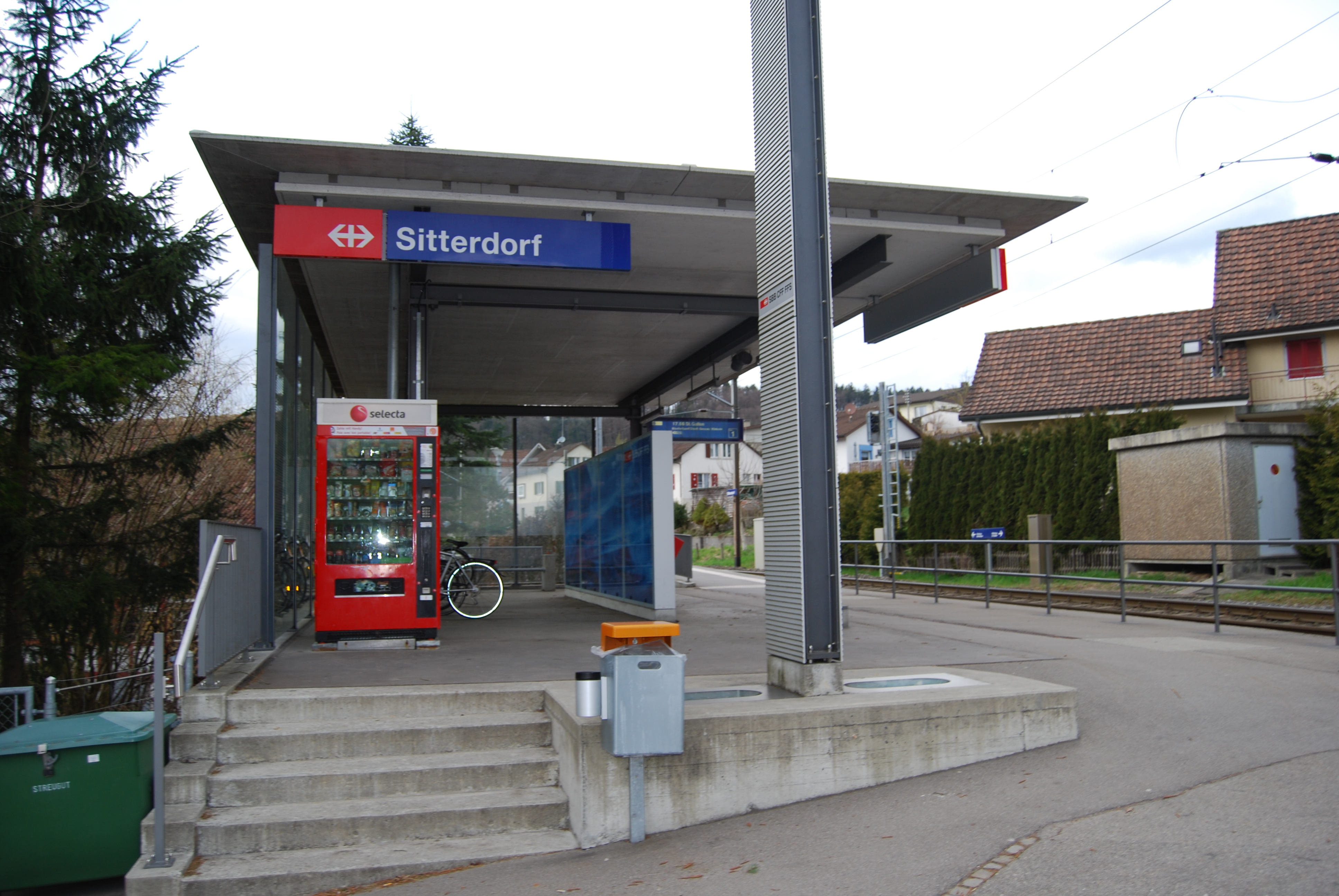 Trainstation of Zihlschlacht-Sitterdorf, canton of Thurgovia, Switzerland